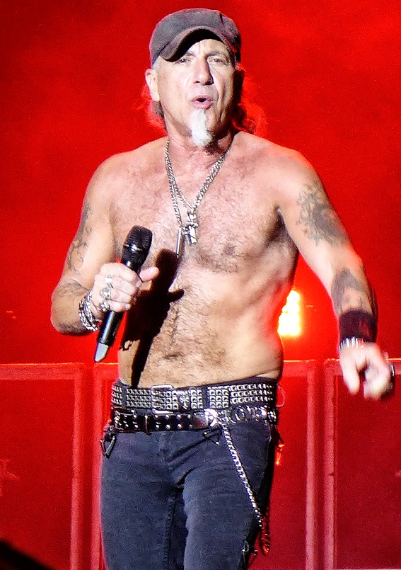 Mark Tornillo performing in 2015